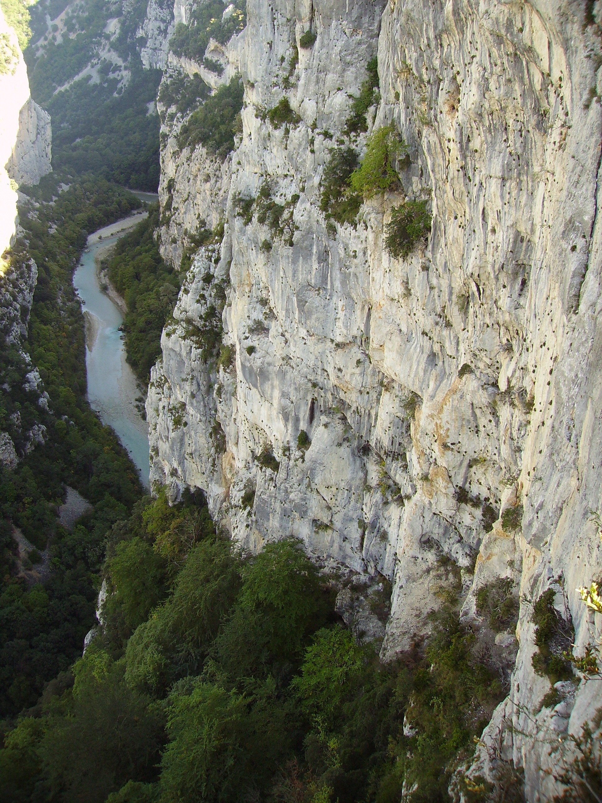 Photographer: User:Ballista